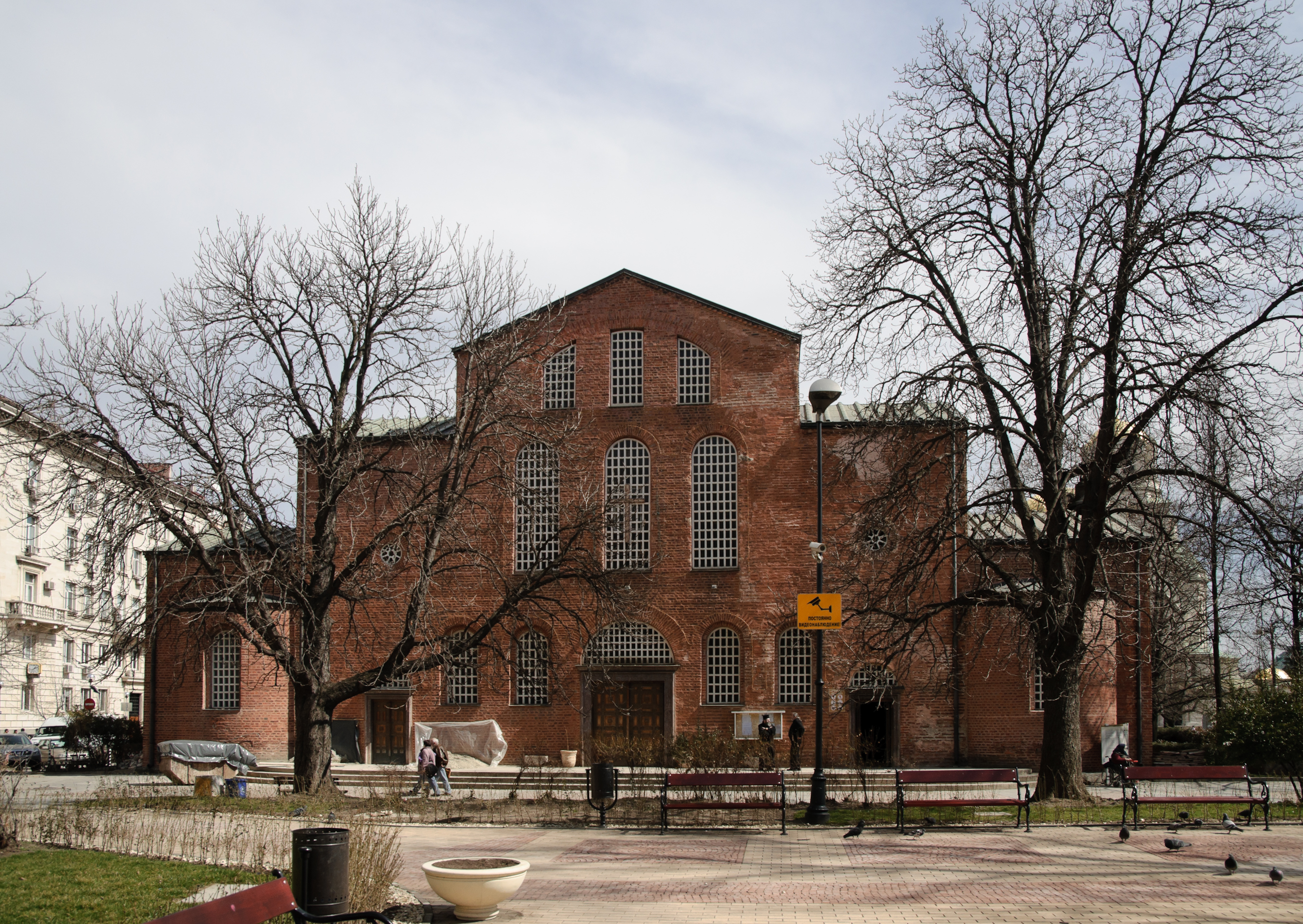 The old Basilica Hagia Sophia in Sofia, Bulgaria.